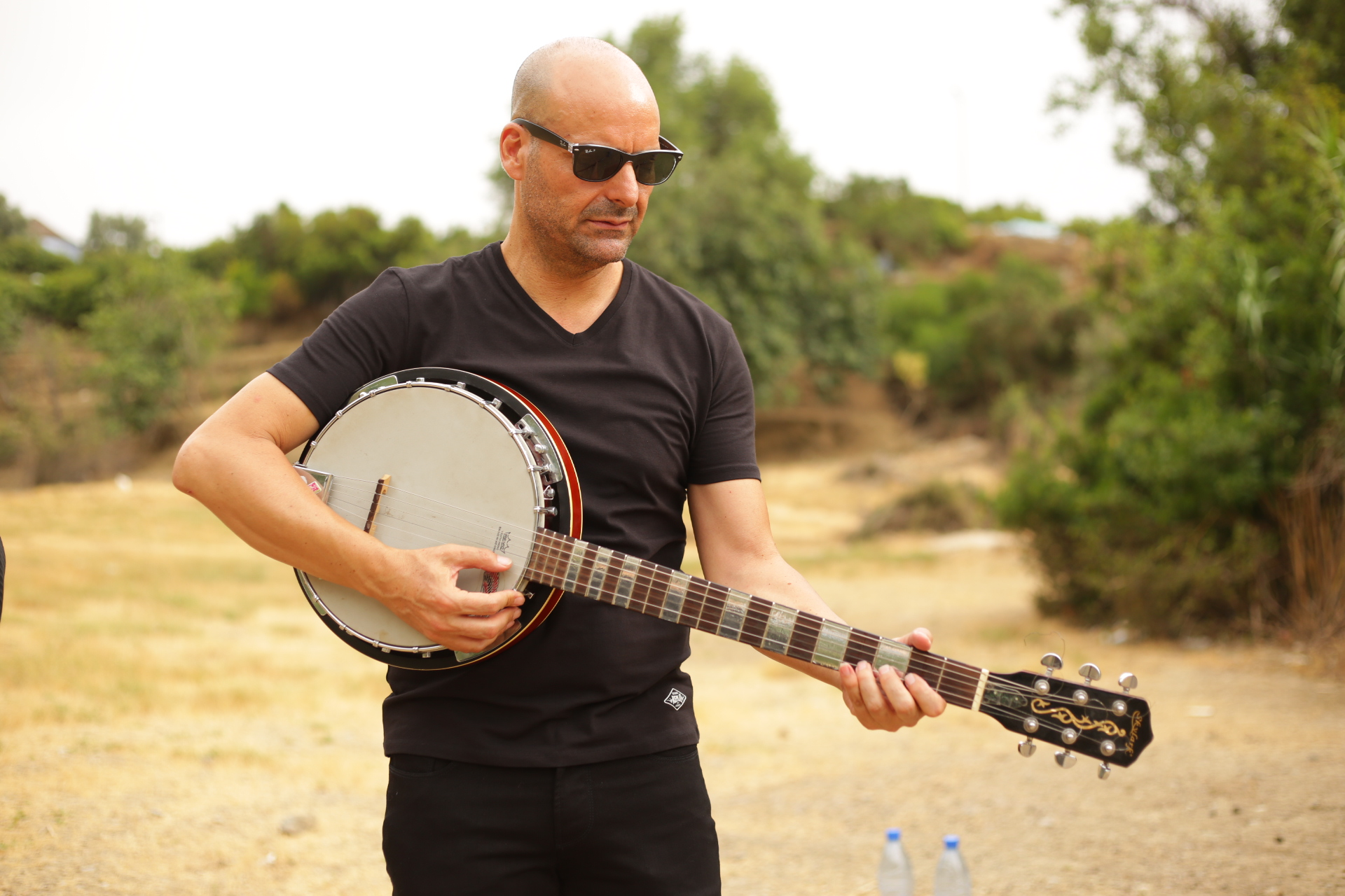 צילומי קליפ במרוקו